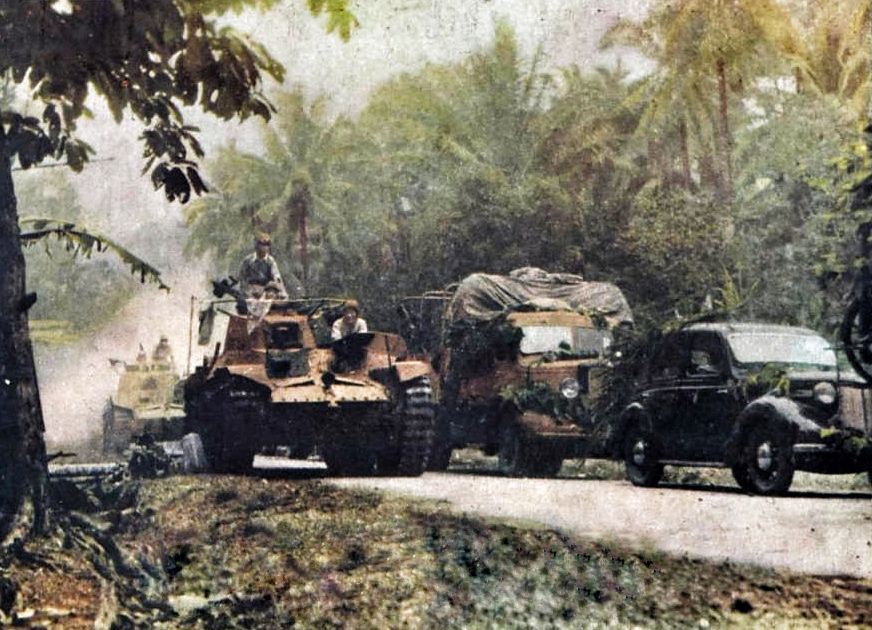 Japanese army Chi-Ha Tanks and trucks during the invasion of Malaya, 1942.